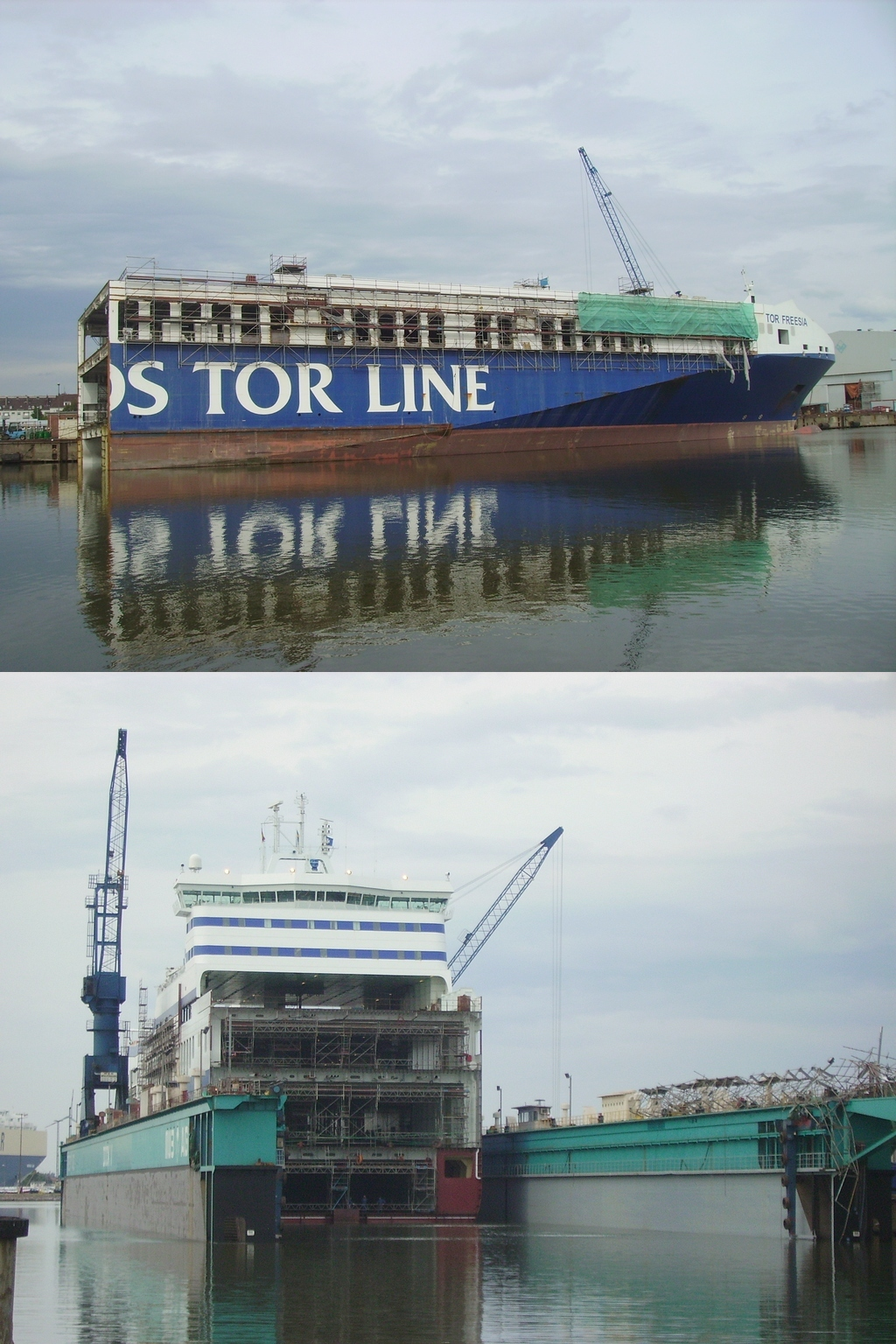 The lengthening of a ship: The roro-ship Tor Freesia has been cut into two pieces. On the upper part of the image, we see the cut off front component of the ship. On the lower part, we see the rest of the ship being docked. An additional midbody has been placed into the ship in the dock and all components will be put togehter. Seen at MWB shipyard in Bremerhaven, Germany